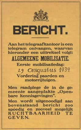 Public announcement for general army mobilisation in the Netherlands, August 29, 1939